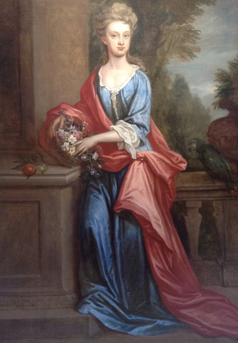 C.1710. Oil on canvas in a giltwood frame. Dimensions: 180 x 130cm (71 x 51in)